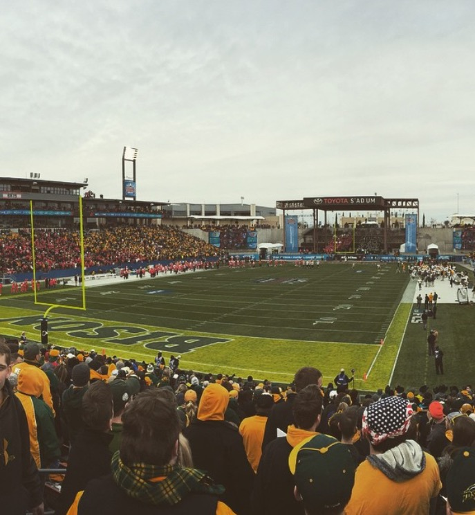 Image taken from the stands of the 2015 FCS National Championship game between North Dakota State and Jacksonville State